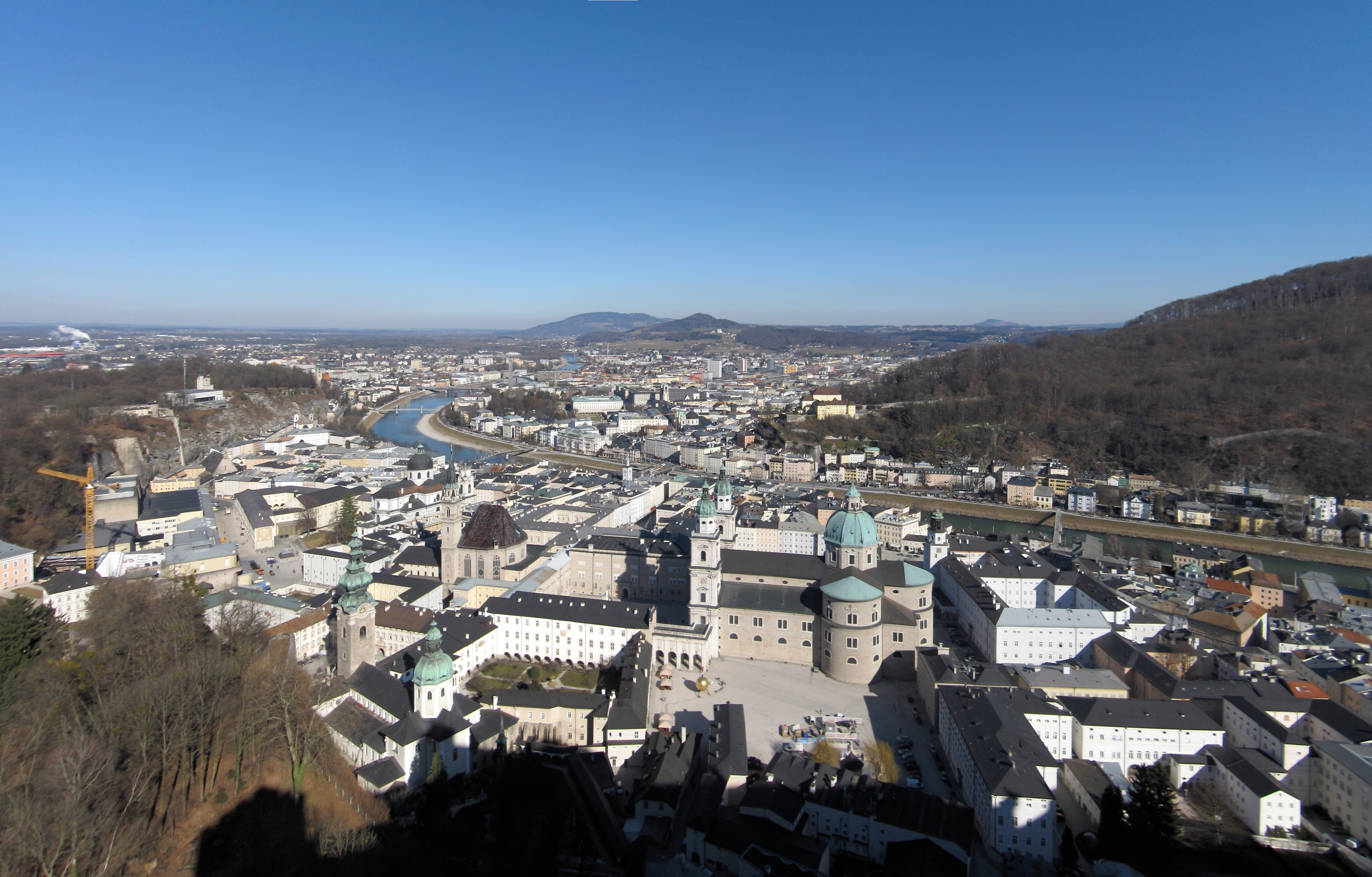 View from Hohensalzburg Castle on Salzburg.